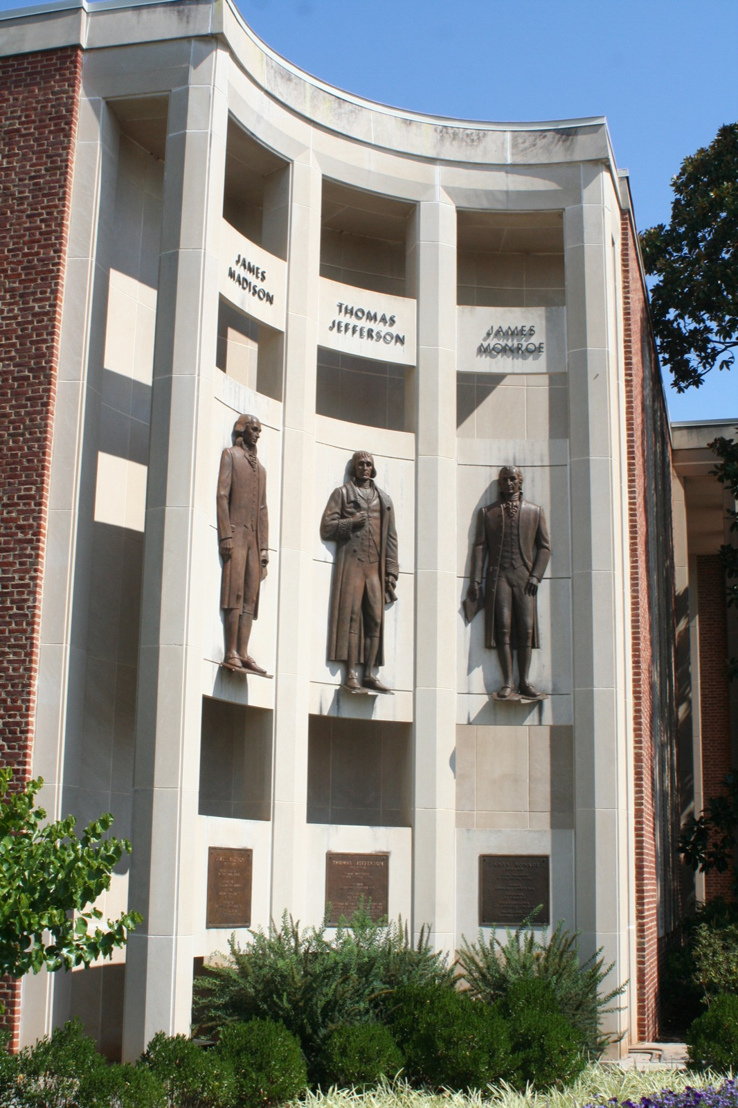 Charlottesville, Virginia city hall, detail of facade showing bas relief statues of James Madison, Thomas Jefferson and James Monroe